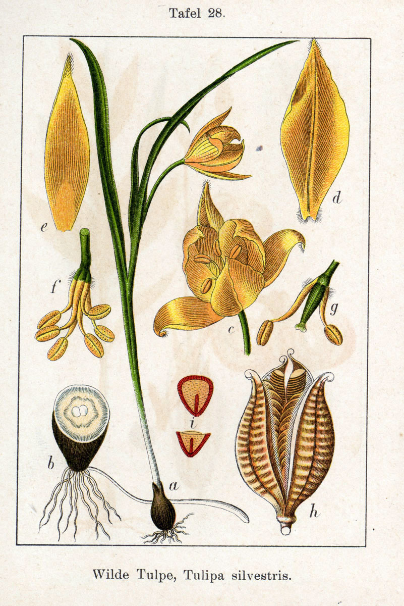 Tulipa sylvestris L. Original Description Wilde Tulpe, Tulipa sylvestris